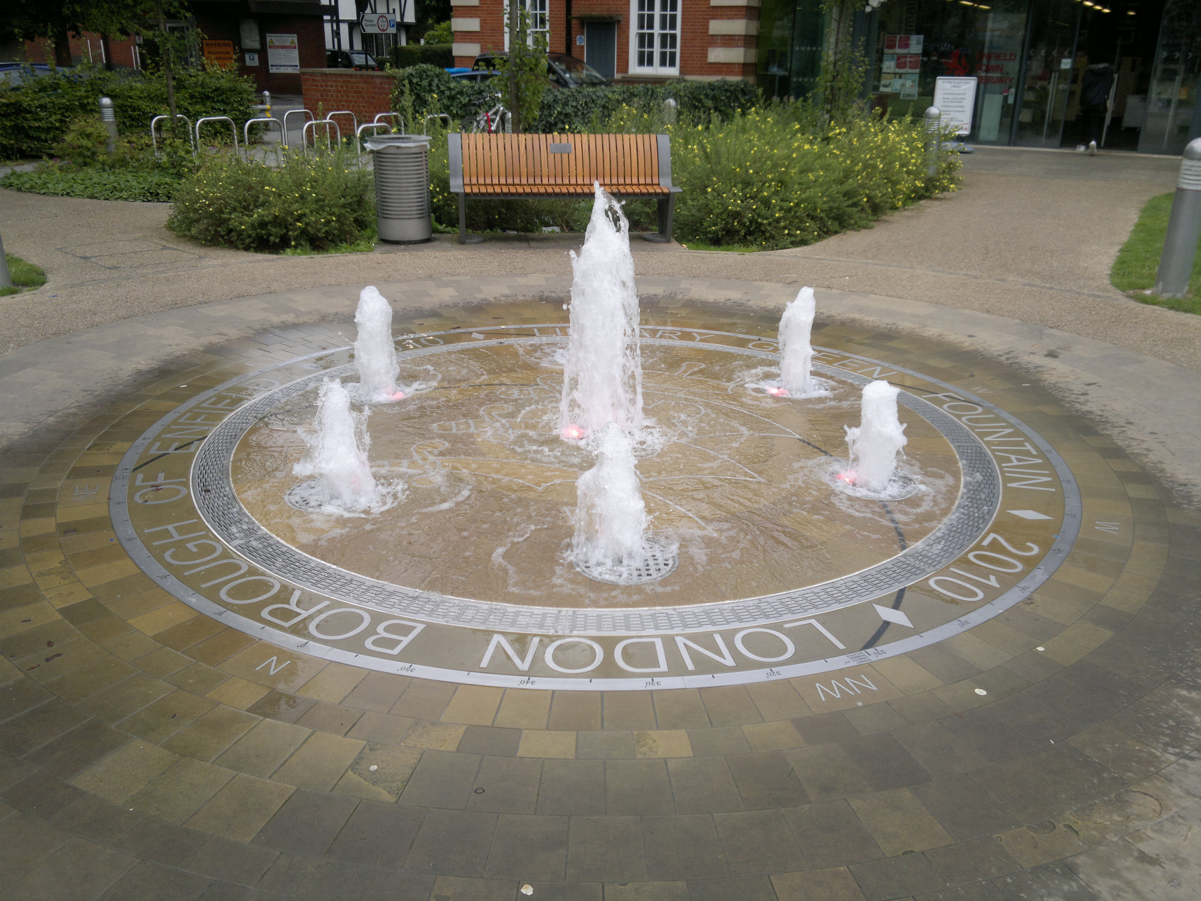 Enfield